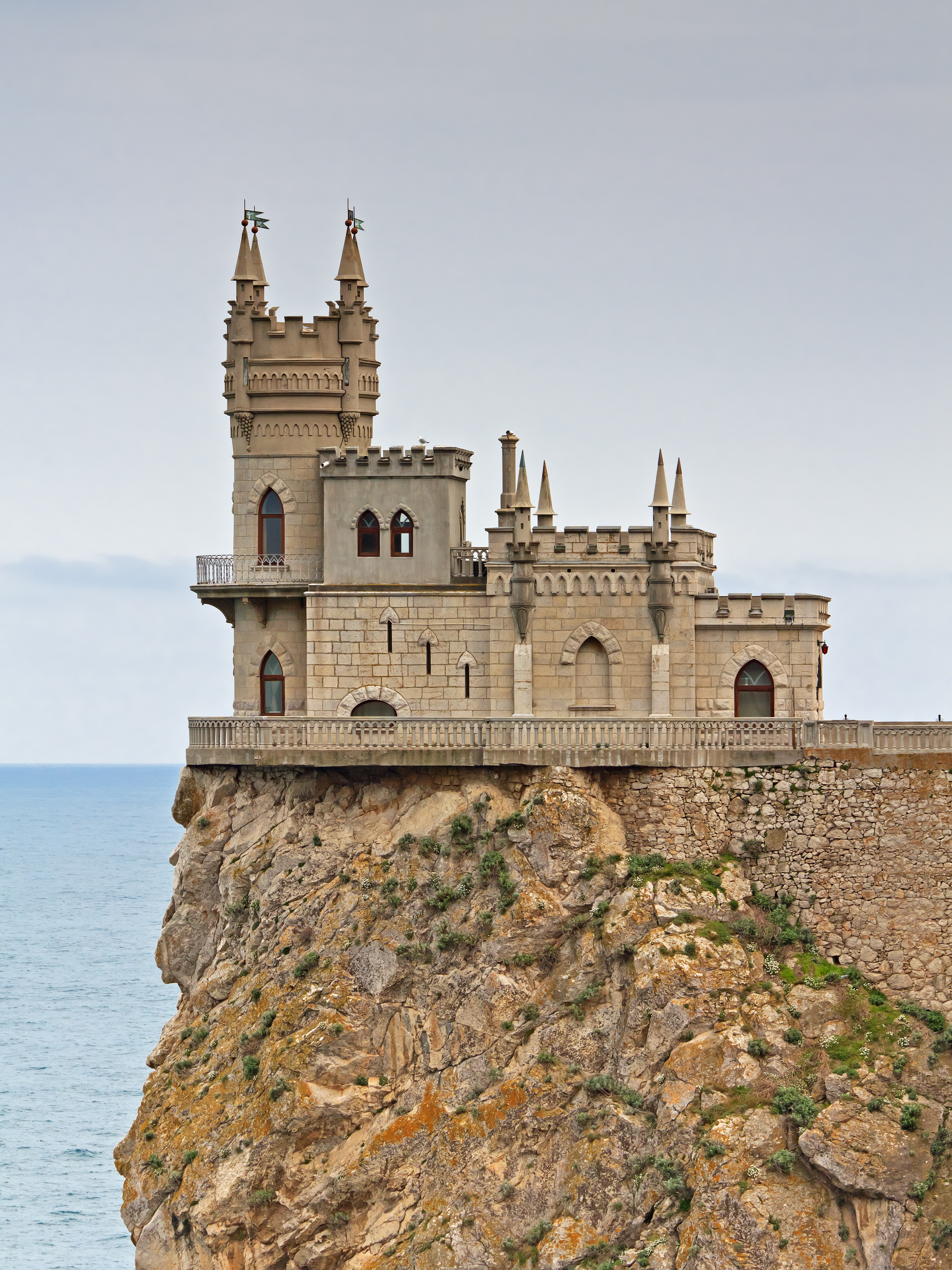 The Swallow's Nest Castle near Gaspra, Yalta municipality. Crimea.